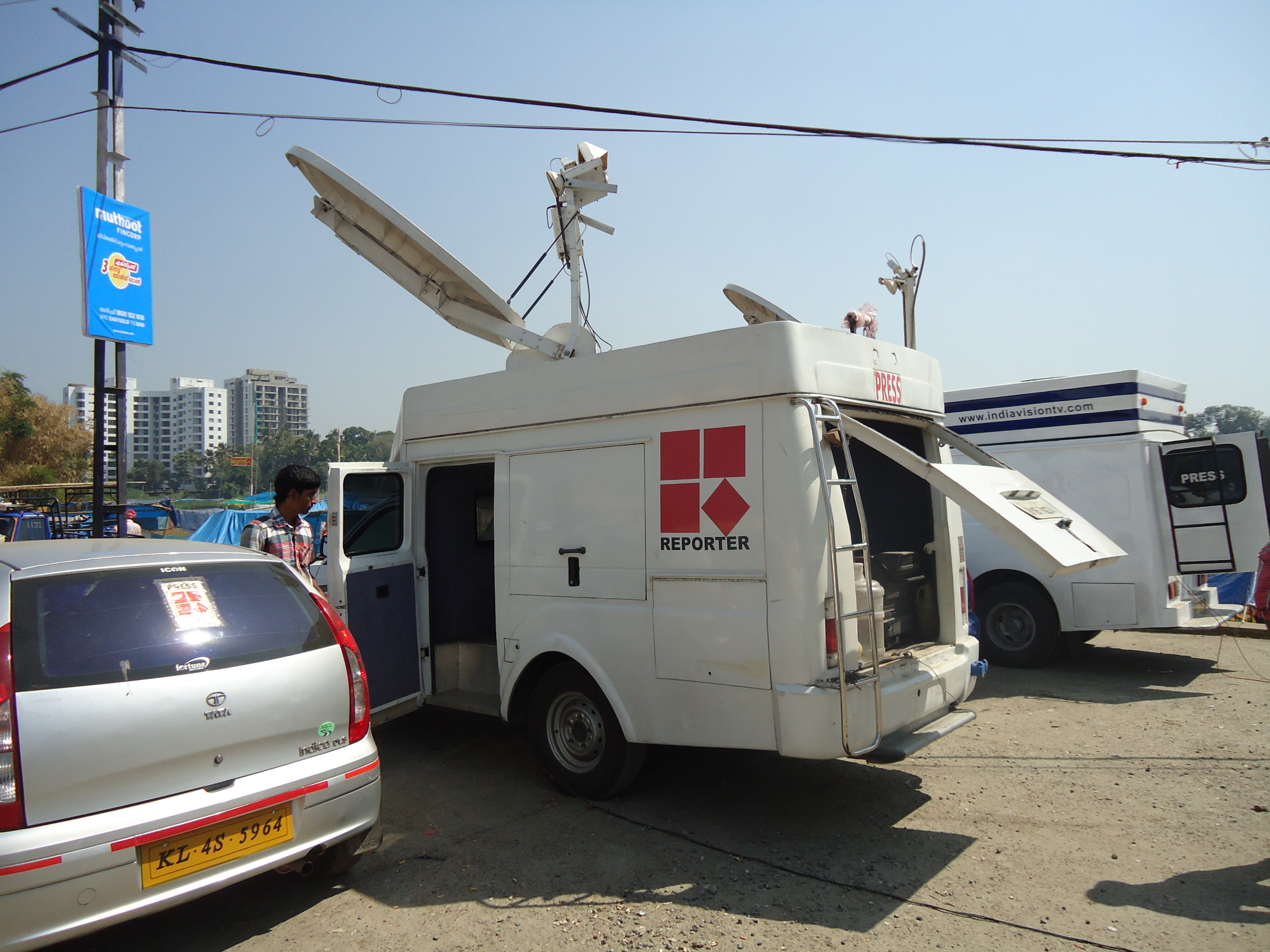 OB Van Reporter TV